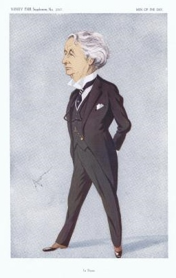 Caricature of Charles Wyndham Vanity Fair 7 Jan 1914. Caption read "Le Doyen"